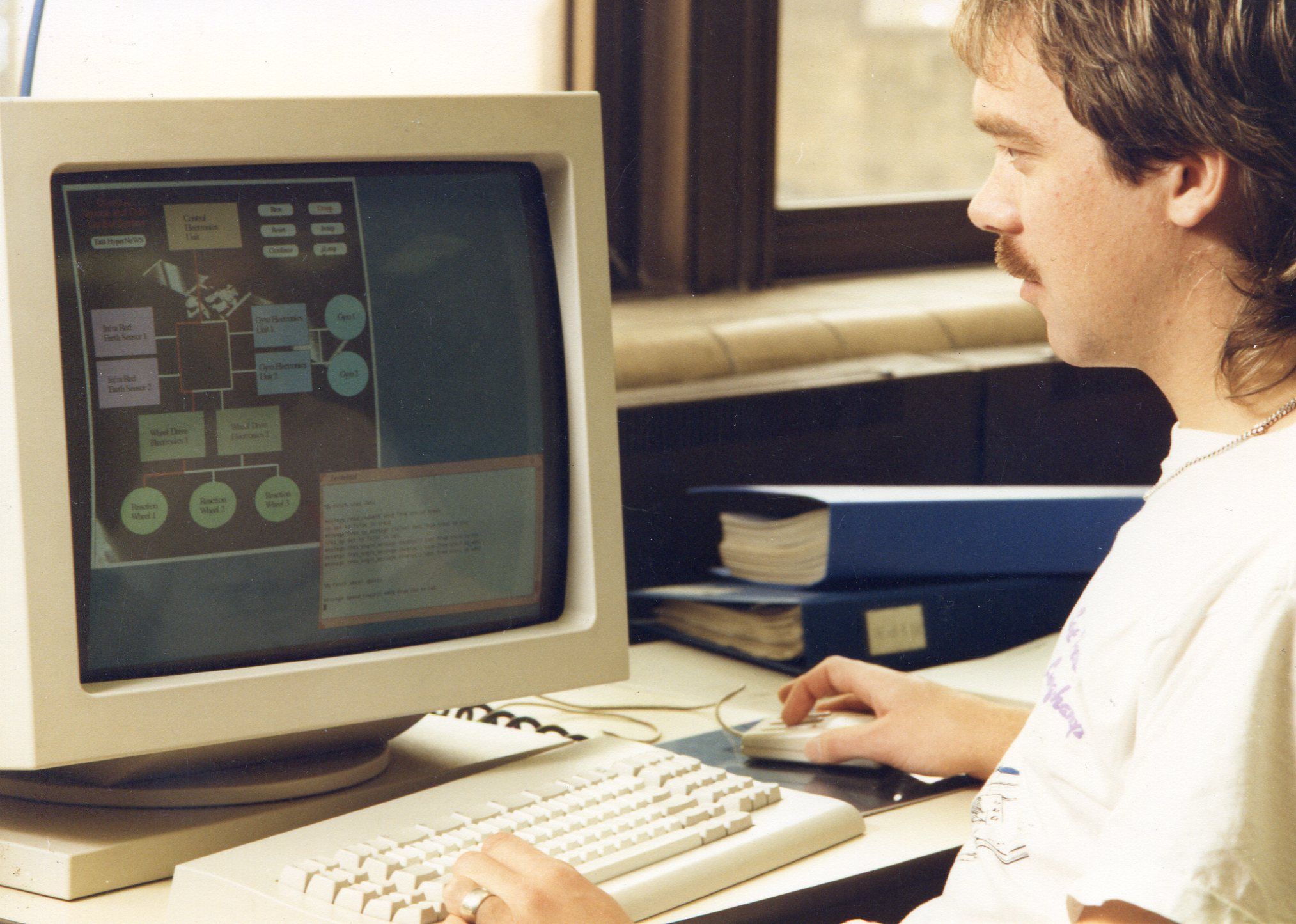 Danny Pearce with the ESA Qualitative satellite model with Hyperlook user interface.